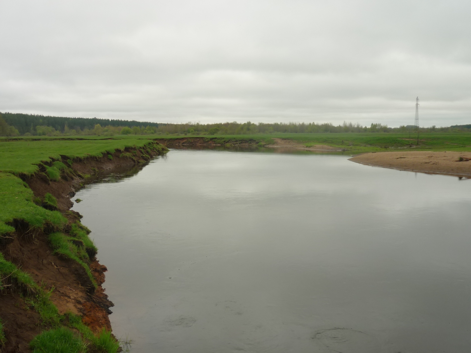 be:Рака Проня River Pronia in Slavgorod district, Mogilev region